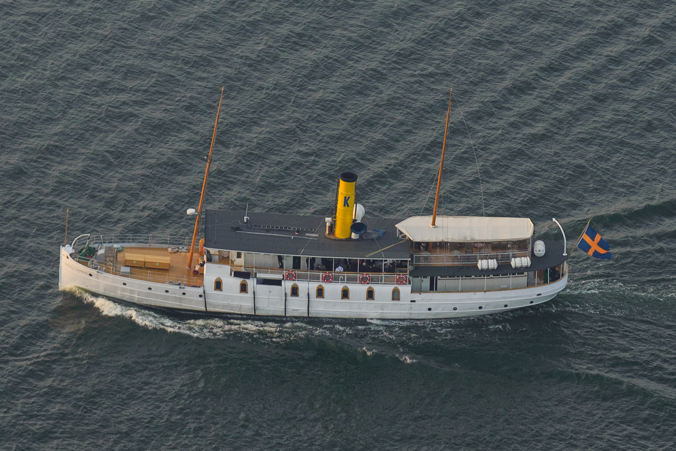 S/S Motala Express.